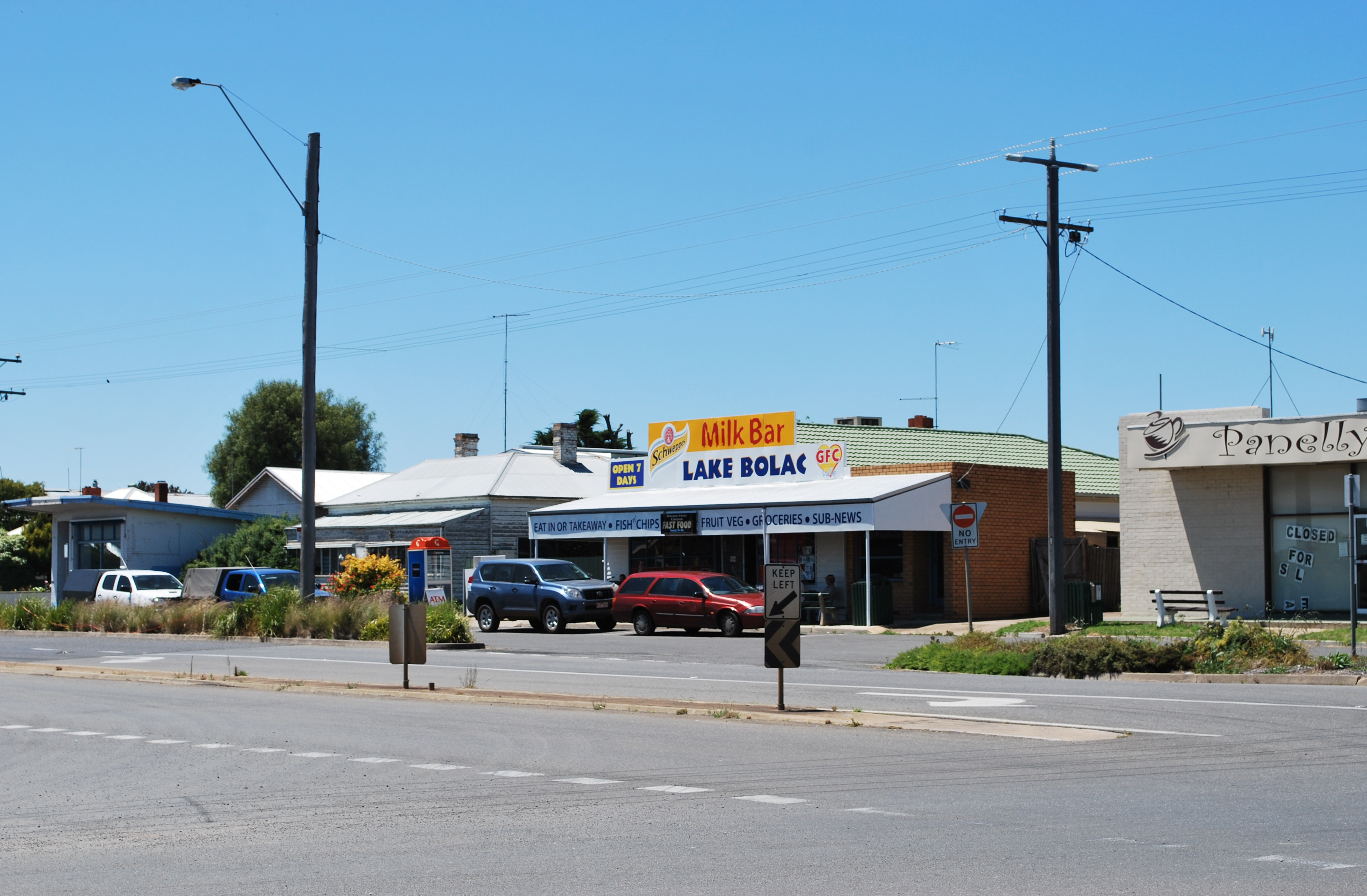 Shopping strip at Lake Bolac, Victoria